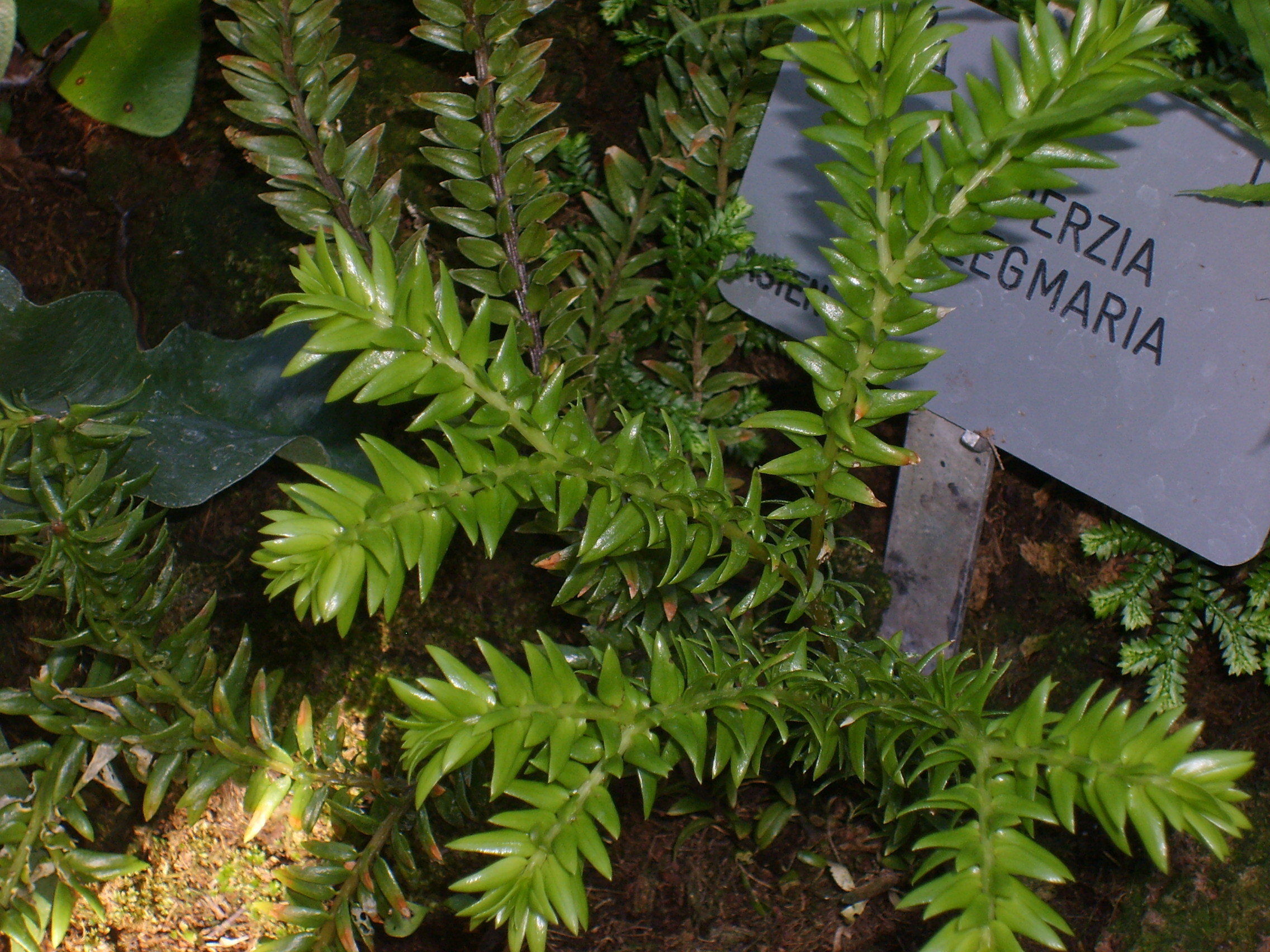 Copenhagen Botanical Garden, Huperzia phlegmaria